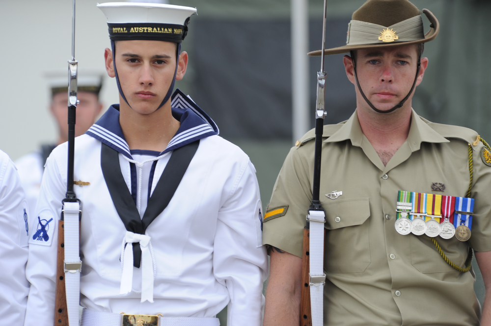 A Royal Australian Navy sailor, left, and a soldier with Australia’'s Federation Guard stand in formation during a musical performance at the biennial Australia International Airshow 2011 at Avalon Airport in Victoria, Australia, March 4, 2011.